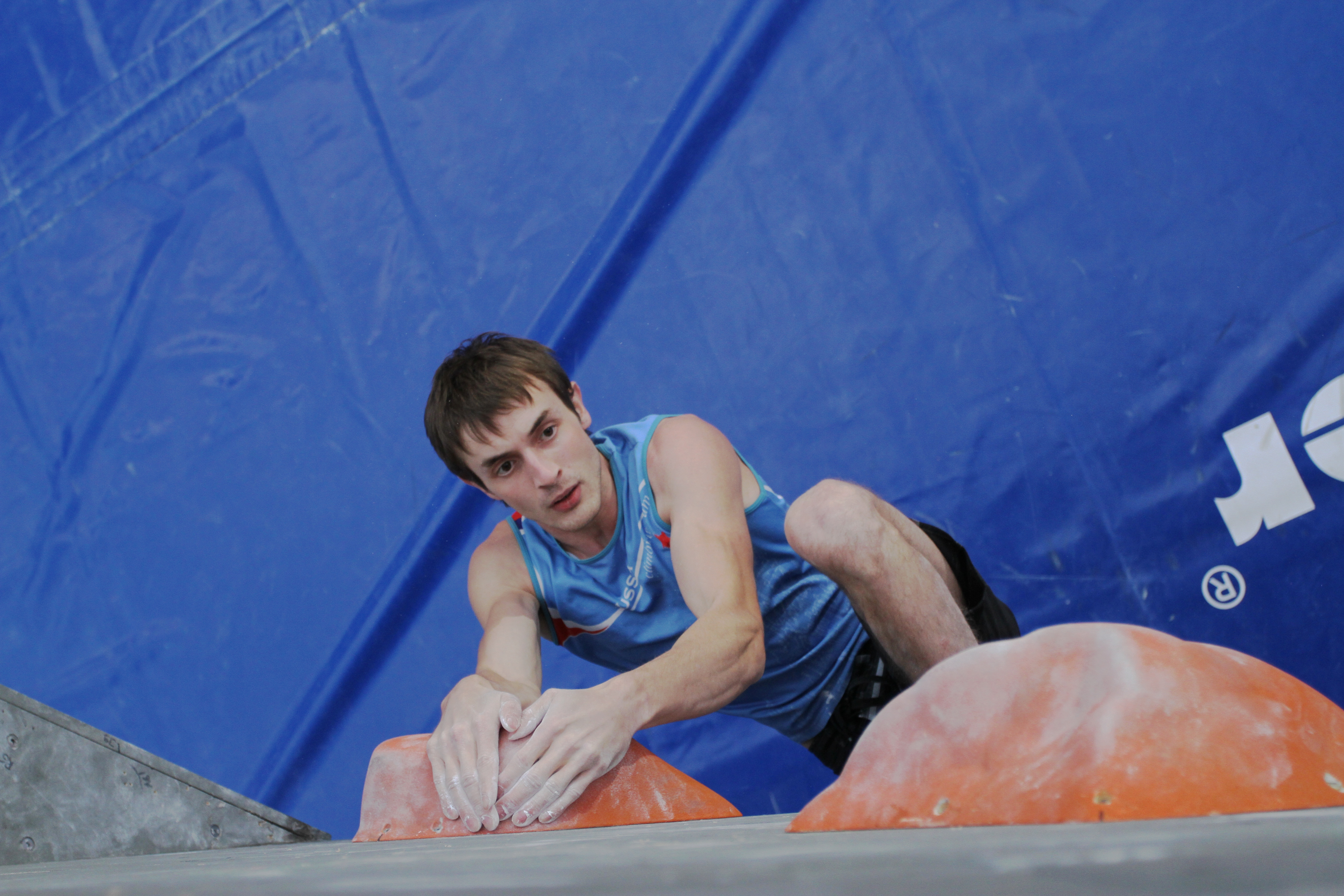 Dmitrii Sherafutdinov, RUS at the Boulder Worldcup 2012